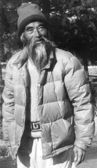 A picture scanned from my own photo of Gia-fu Feng, of which no other copies exist. Because few images of Gia-fu are available to the public, I am posting this low res image under a Creative Commons license.